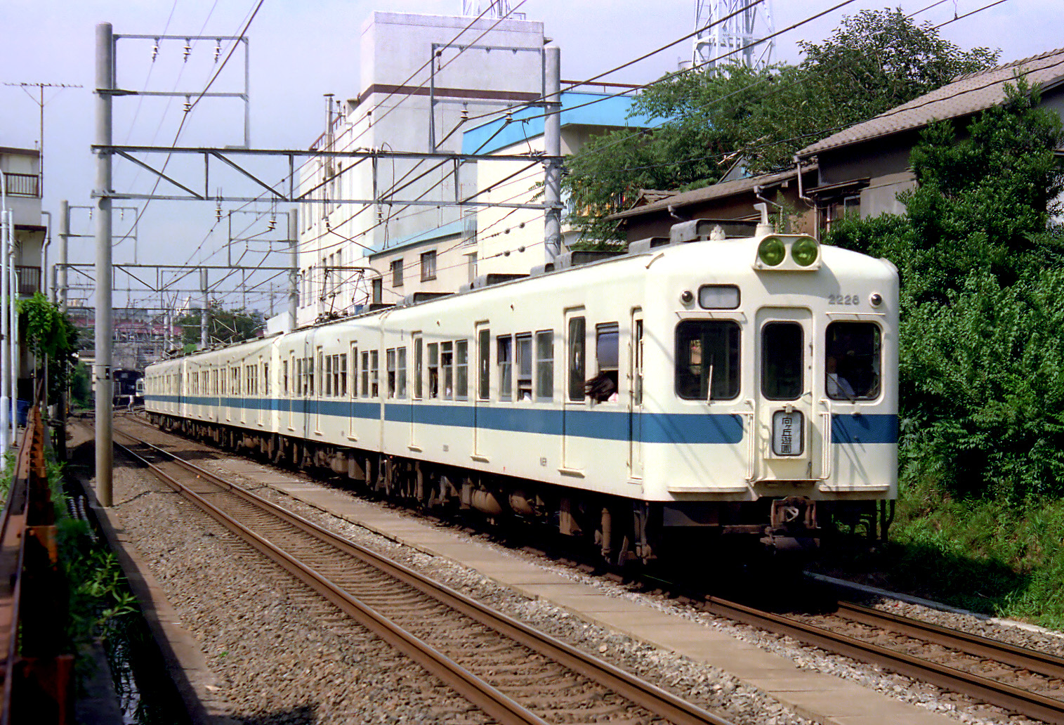 Odakyu Electric Railway 2220 Series EMU seen between Sangubashi and Yoyogihachiman in 1979.